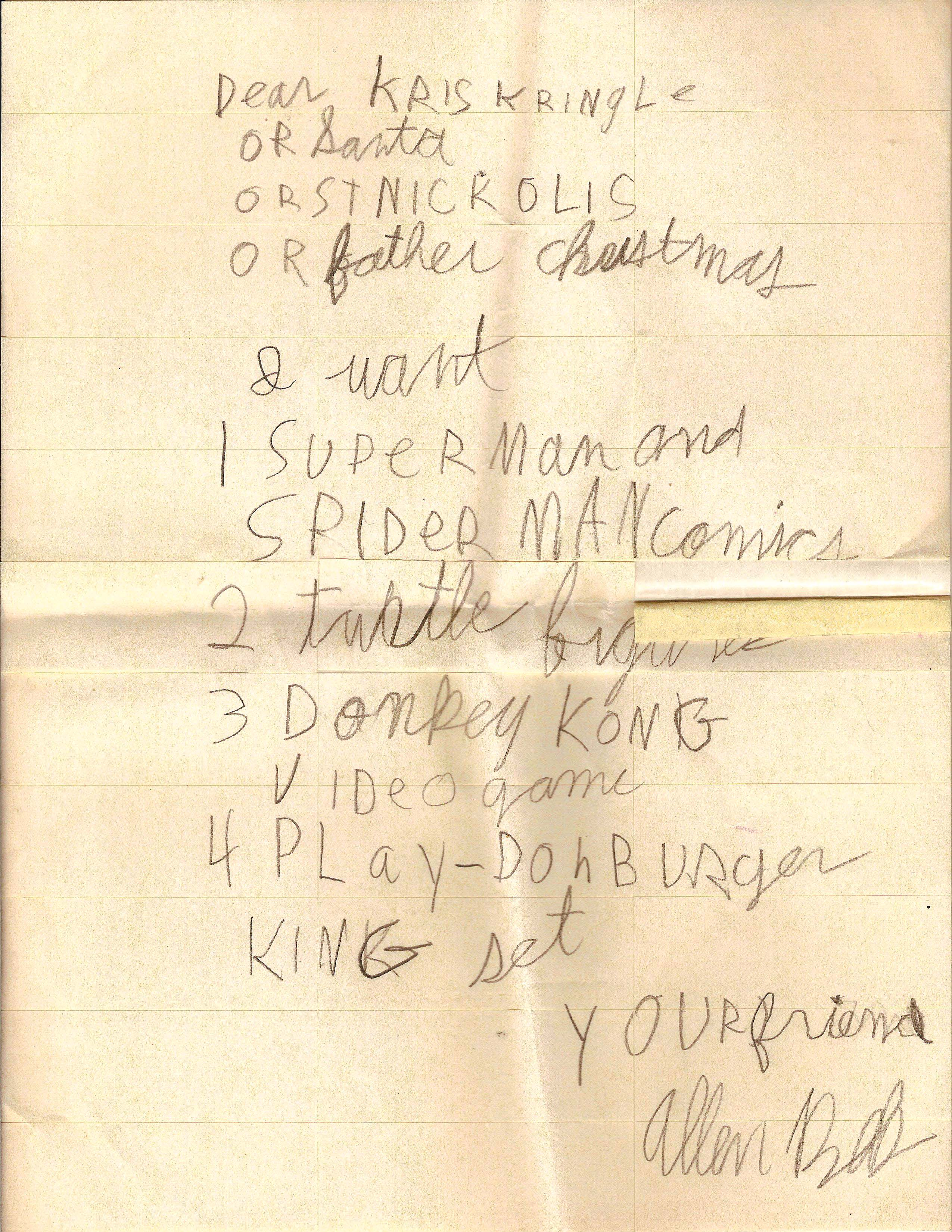 Wish list written in 1990.